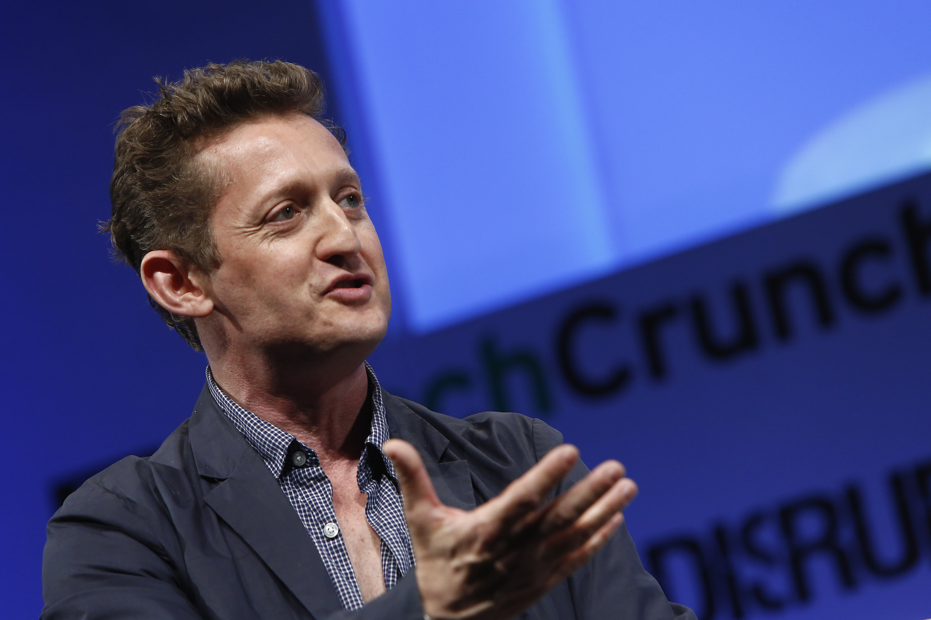 Director Alex Winter speaks onstage at the TechCrunch Disrupt NY 2013 at The Manhattan Center on in New York City